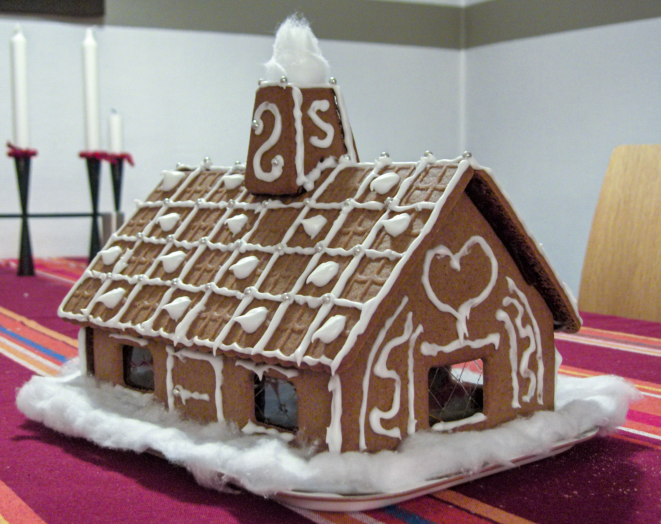 Gingerbread house